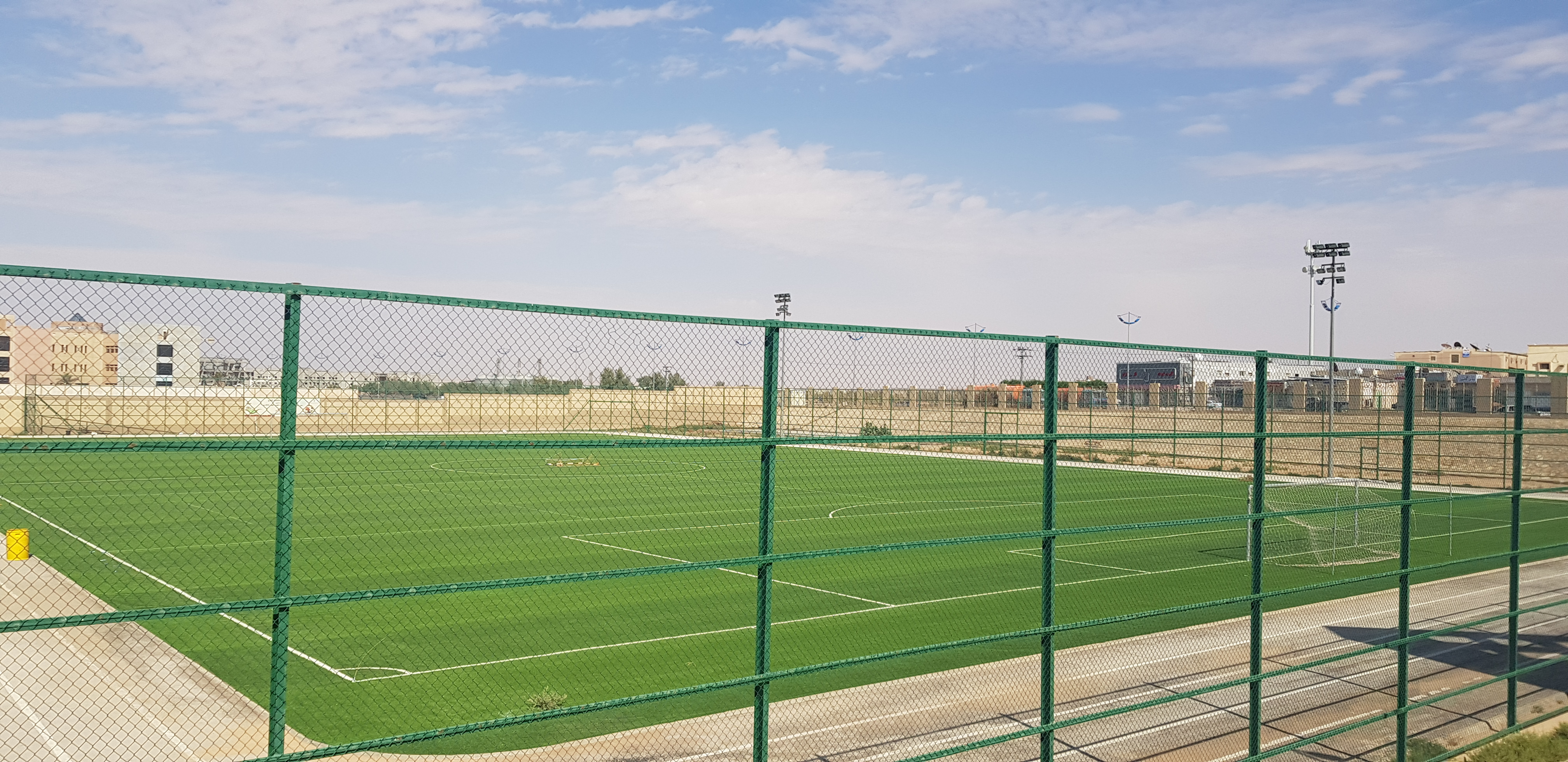 ملعب كرة قدم.